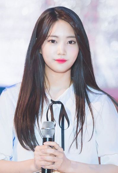 Jueun